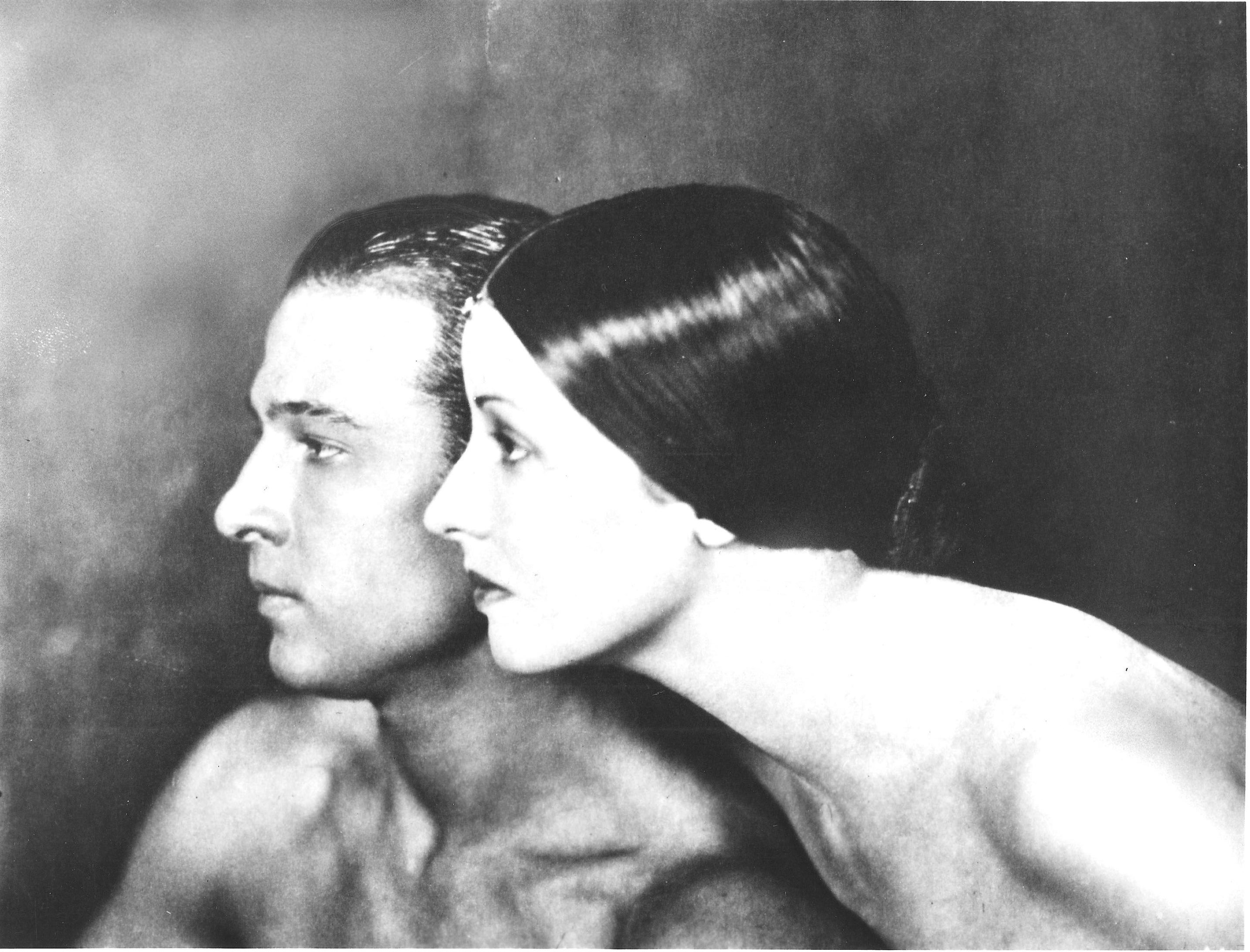 Natacha Rambova and Rudolph Valentino